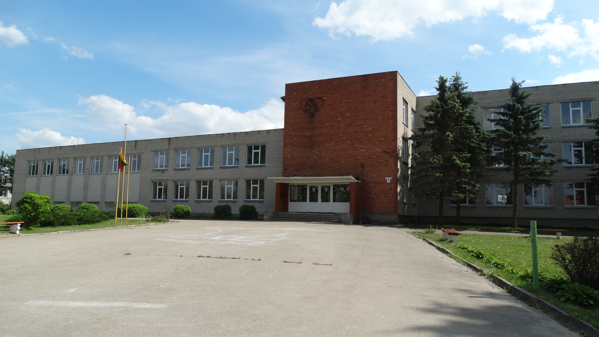 Stanisław Kostka Gymnasium, Paberžė, Vilnius District, Lithuania